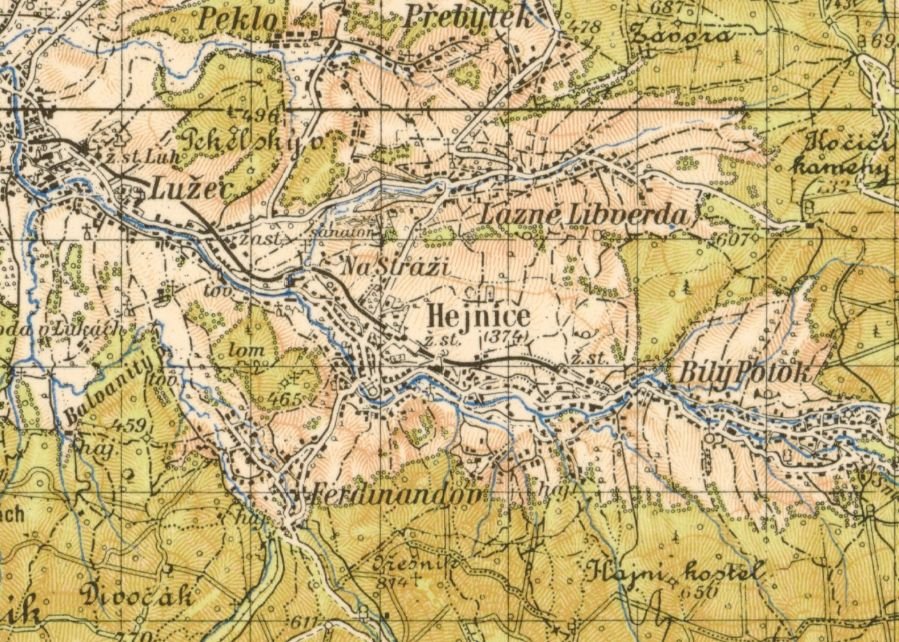 Hejnice at maps from 3rd Military Mapping Survey of Austria-Hungary.